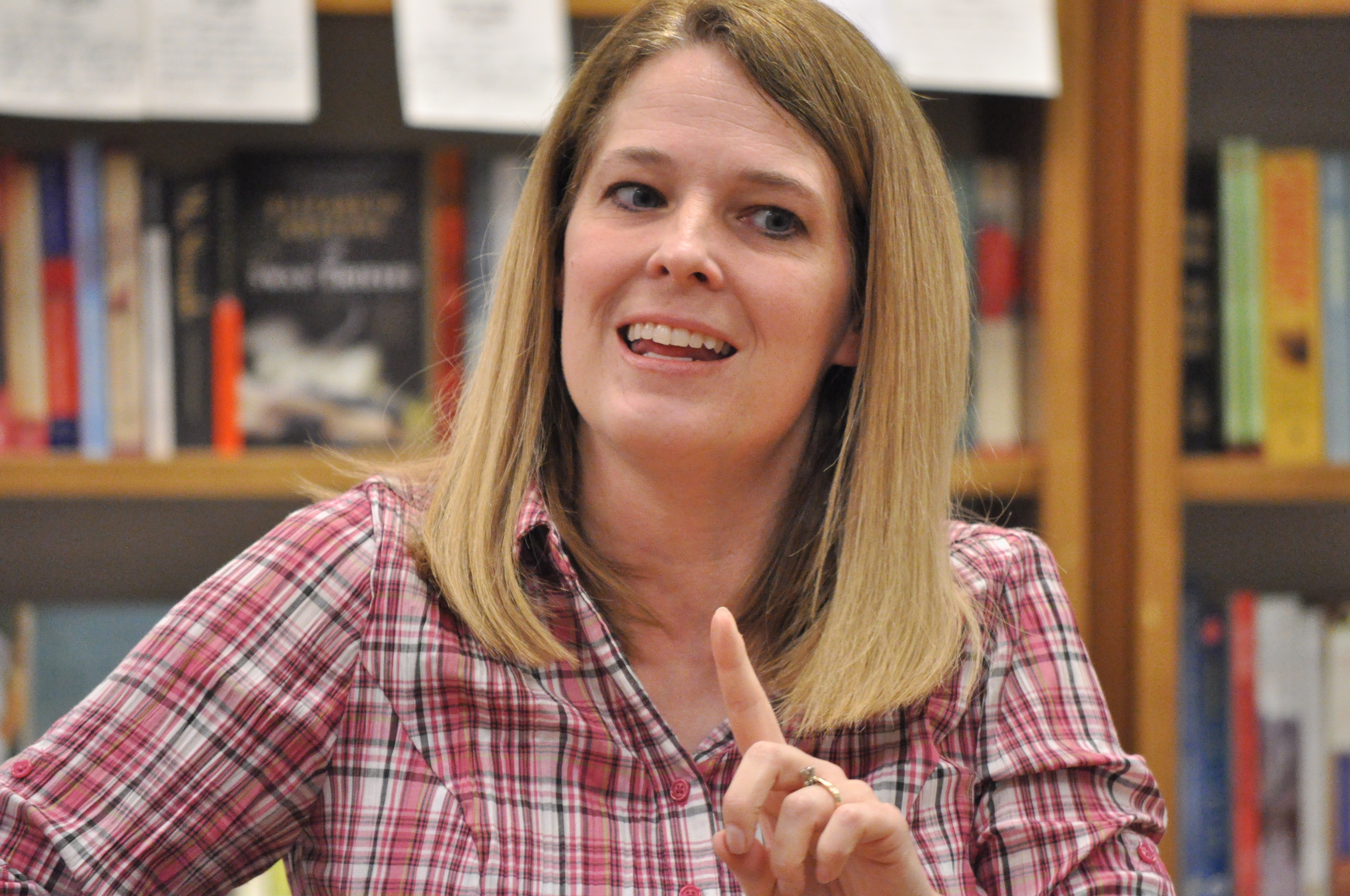 Author Jennifer A. Nielsen appearing at Secret Garden Books, Ballard, Seattle, Washington.